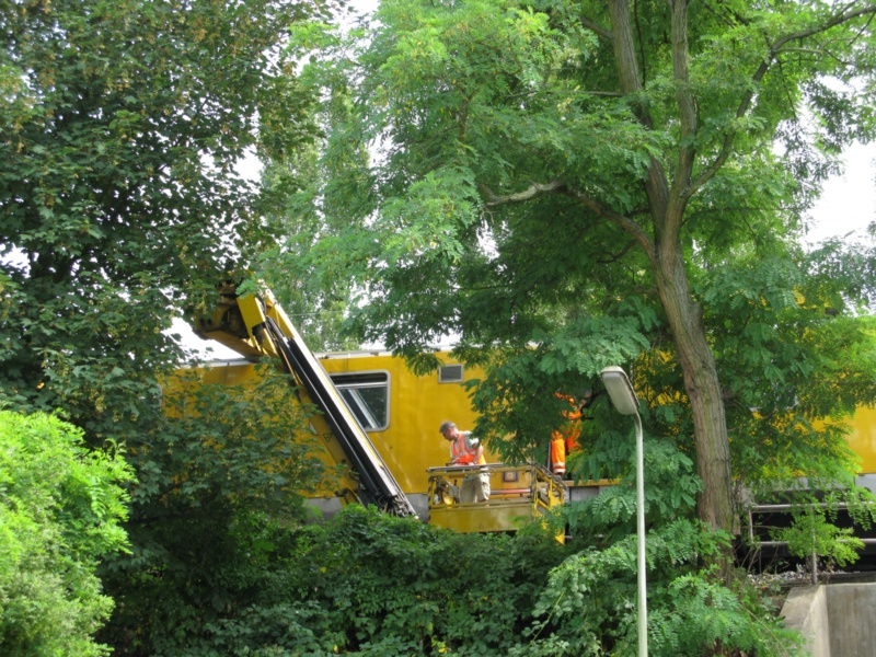 A overhead lines service vehicle of class 711 with the work platform at track level, preparing to cut a tree